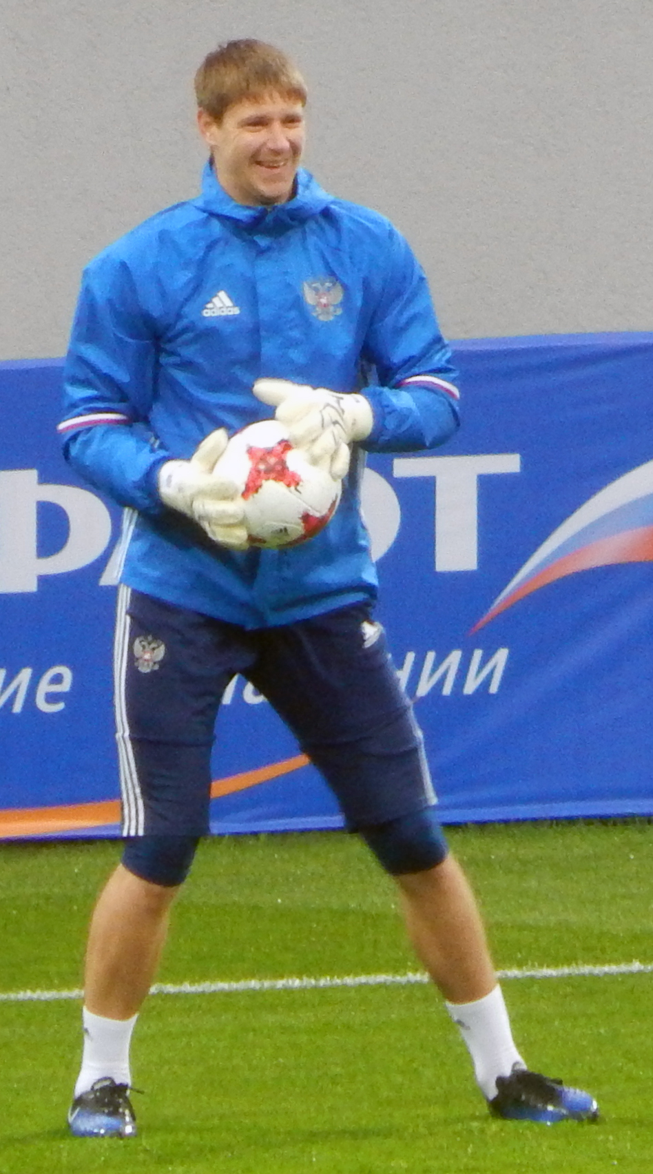 This photo was taken on March 28, 2017 during the exhibition game between Russia and Belgium. That game was held in Adler (City of Sochi) at the Fisht stadium.